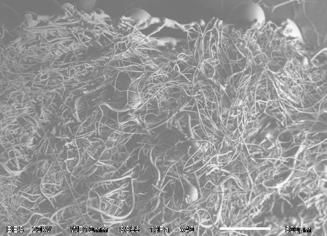 Basalt wool obtained from the melt by spraying on rolls. Scanning electron microscopy. 40x magnification